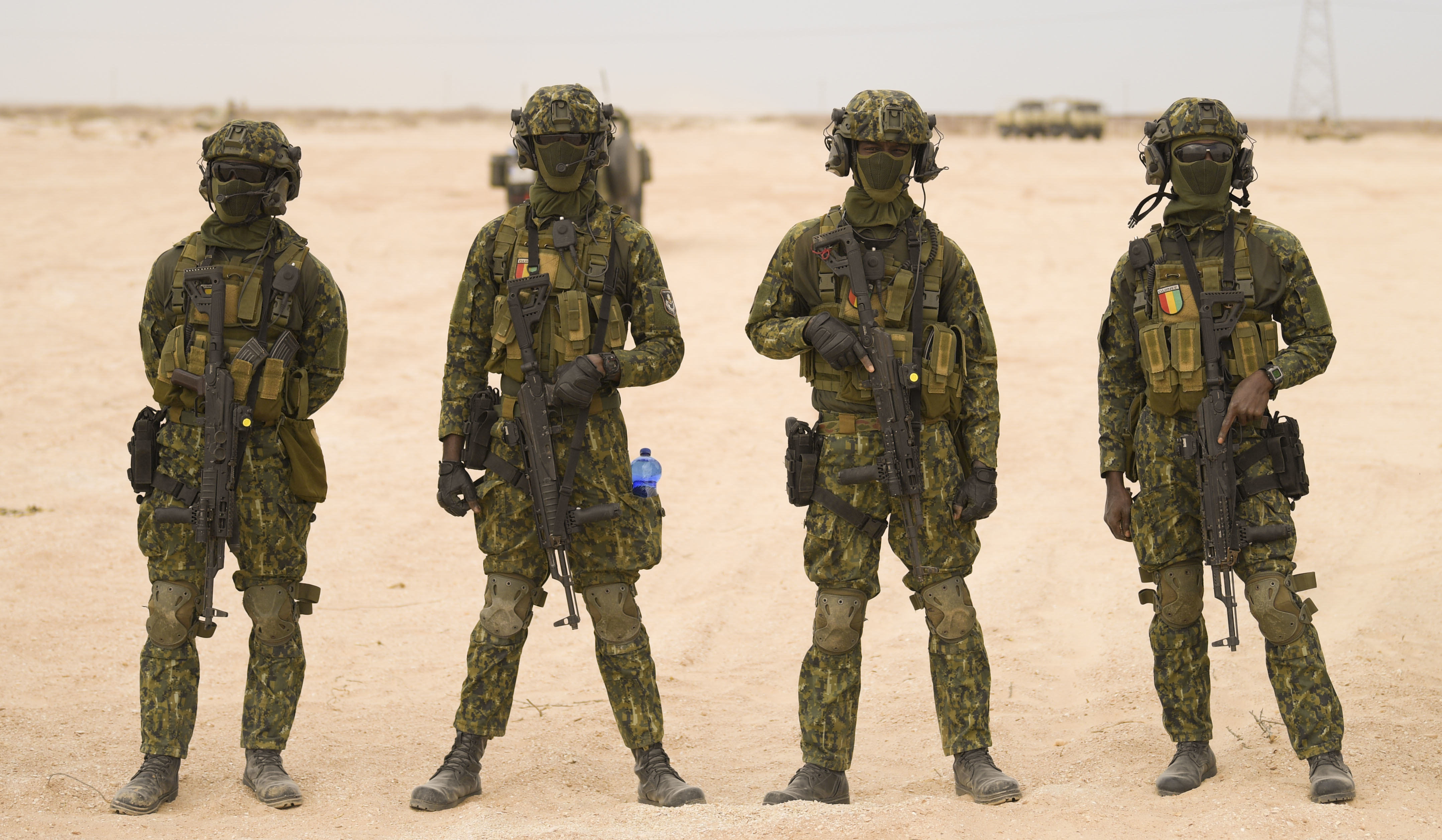 Guinean Special Forces soldiers conduct weapons range training for both close quarters rifle and sniper skills during FLINTLOCK 20 in Nouakchott, Mauritania, February 17, 2020. Flintlock is an annual, integrated military and law enforcement exercise that has strengthened key partner-nation forces throughout North and West Africa since 2005. Flintlock is U.S Africa Command’s premier and largest annual Special Operations Forces exercise. (U.S. Navy photo by Mass Communication Specialist 2nd Class Evan Parker)